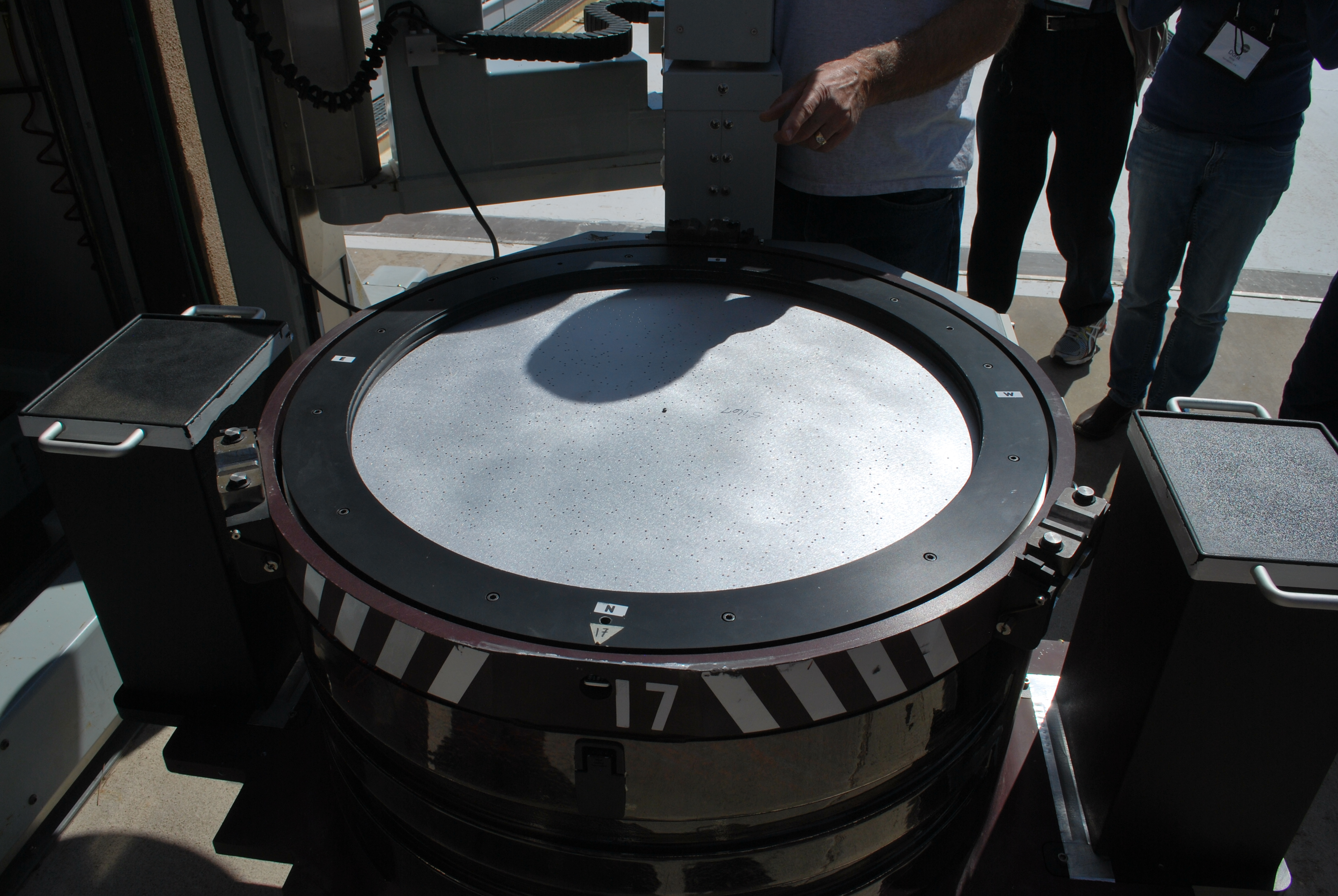 The Sloan Digital Sky Survey Telescope mounts this cartridge containing a precisely drilled aluminum plate filled with optical fibers in order to take simultaneous spectrographs of 1000 galaxies at a time.